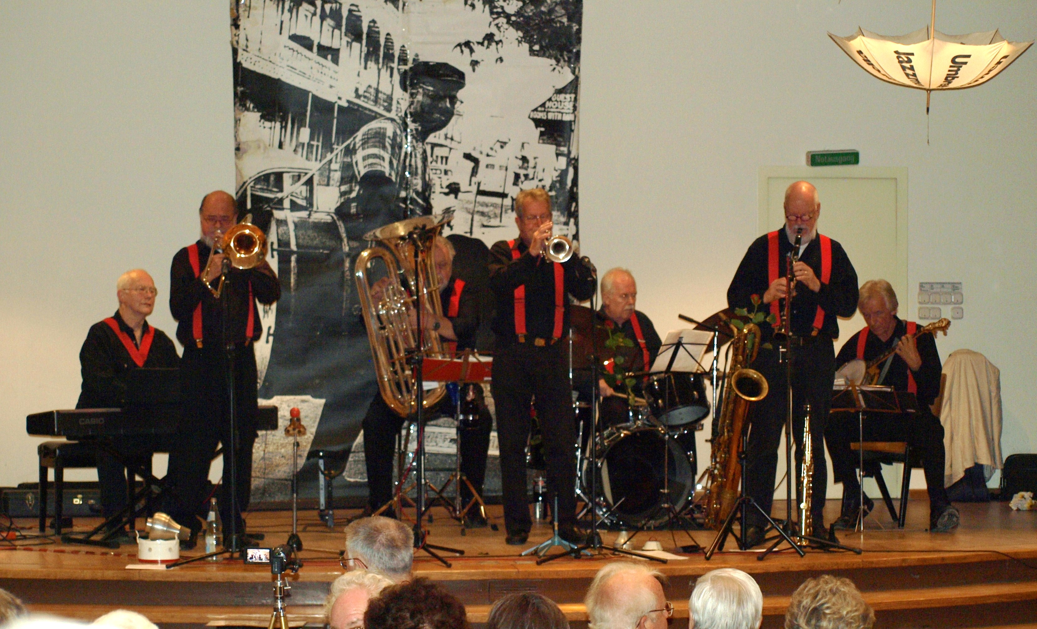 German Jazzband "Umbrella Jazzmen" playing on their 50th Jubilee.